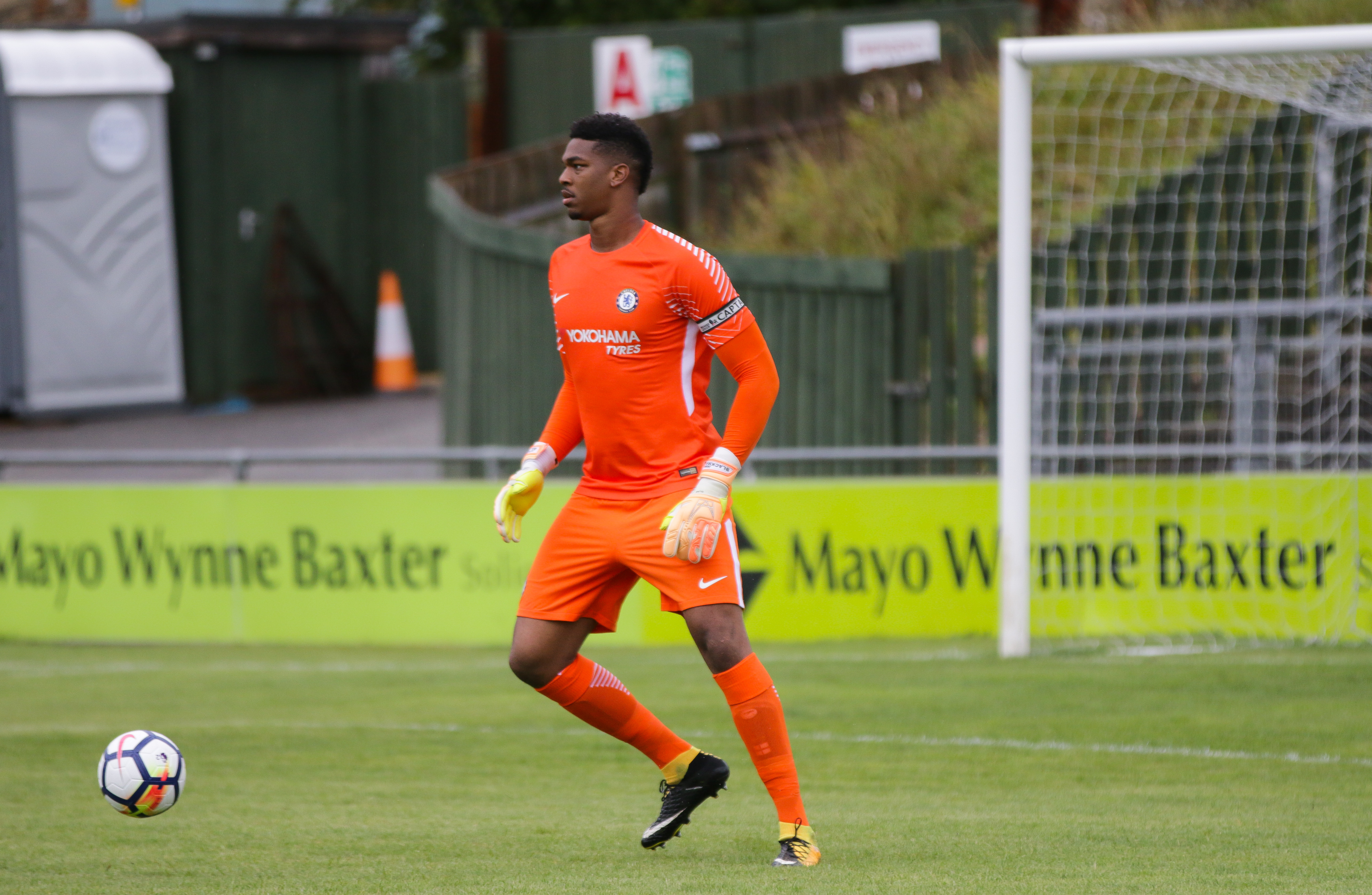 Lewes 0 Chelsea DS 1 Pre Season 22 07 2017-223.jpg